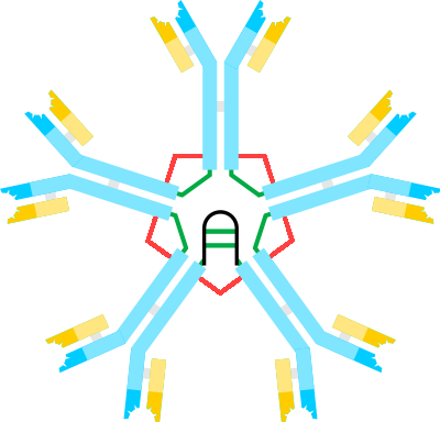 Antibody type IgM scheme. Blue - heavy chains Yellow - light chains Dark yellow/blue - variable regions Light yellow/blue - constant regions Green - disulfide bridges Red - J chains